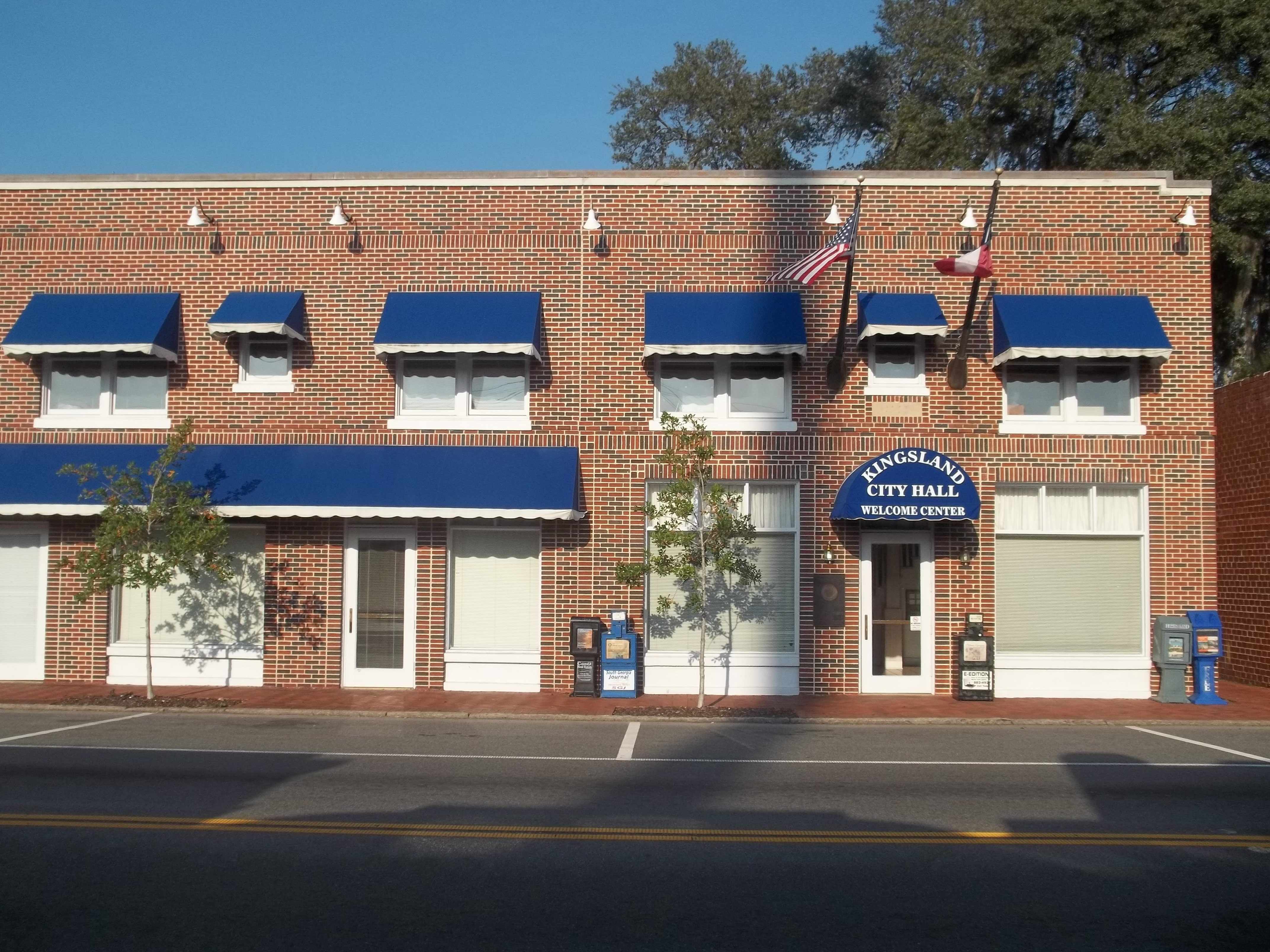 Kingsland, Georgia: Kingsland Commercial Historic District